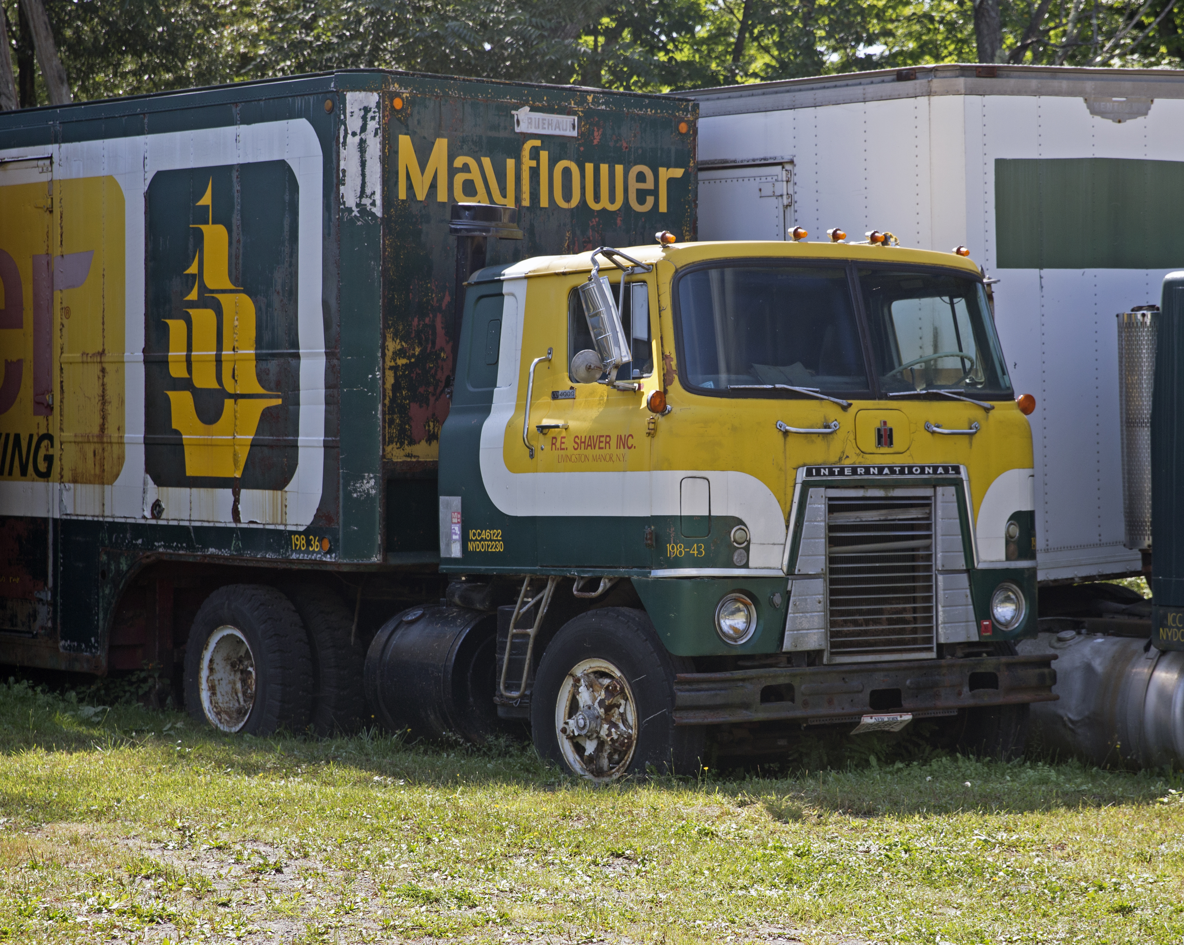 A 1965-1968 International Harvester CO-4000 cabover truck, Mayflower trailer. In Livingston Manor, upstate New York.